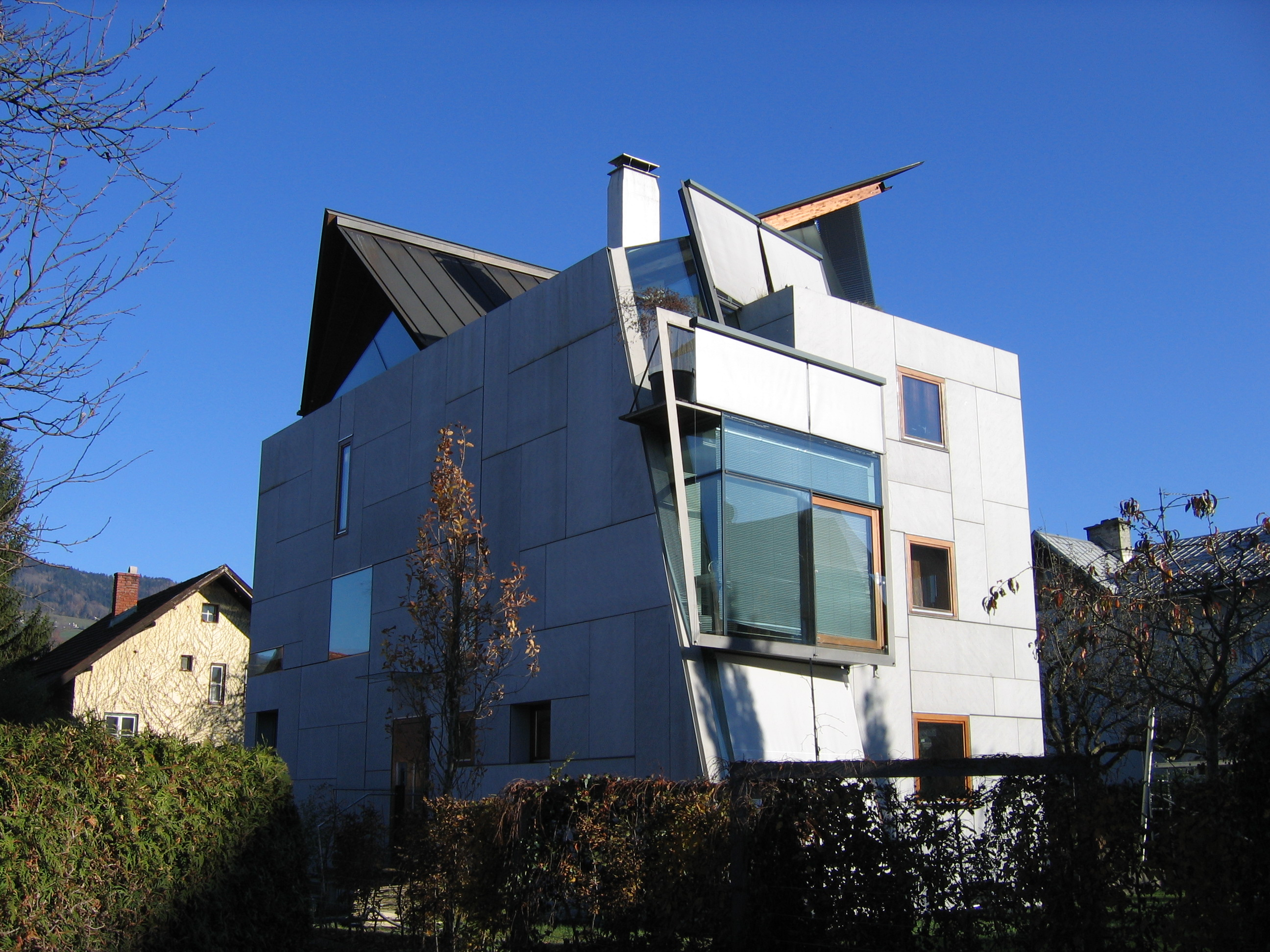 Architectural interesting house in Josefiau (Salzburg)